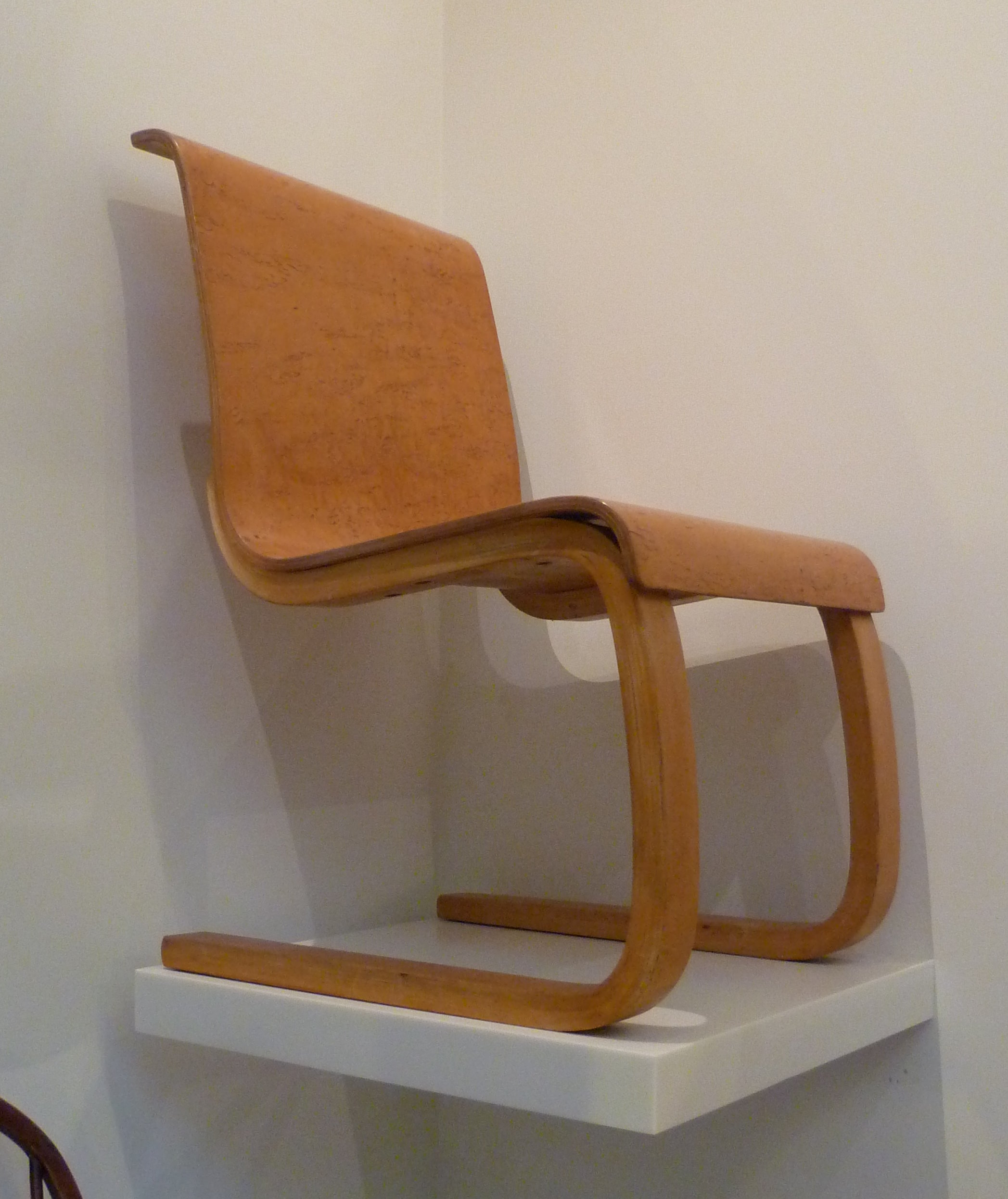 Alvar Aalto chair 1932-33